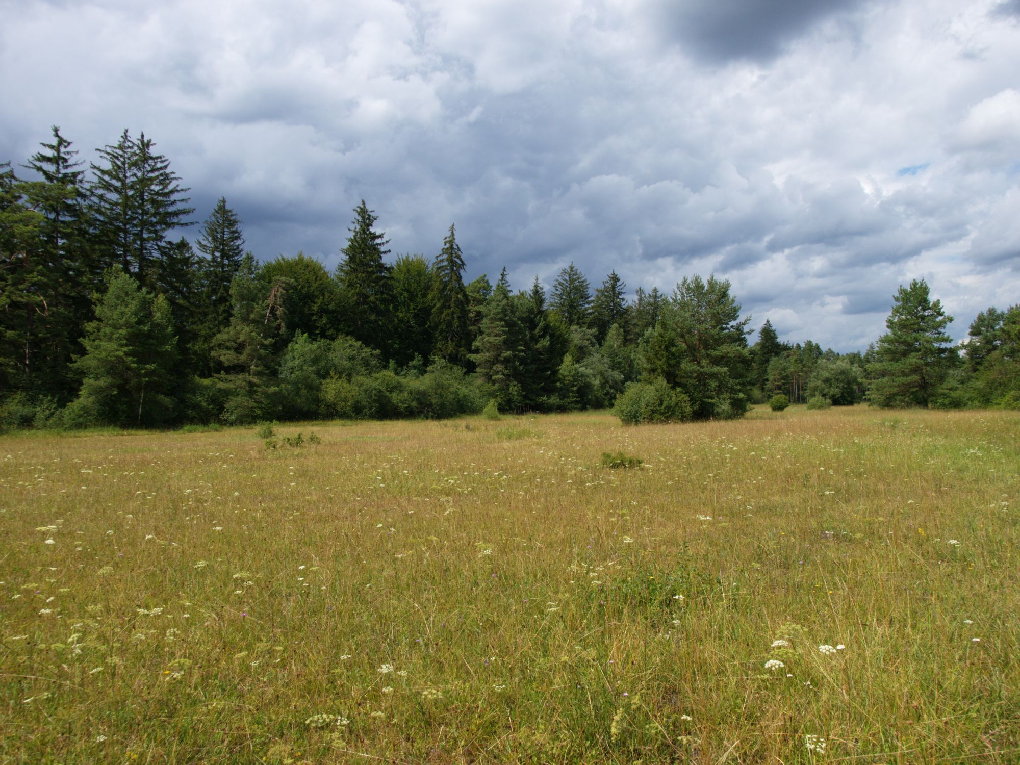 Schießplatzheide in the city forest of Augsburg